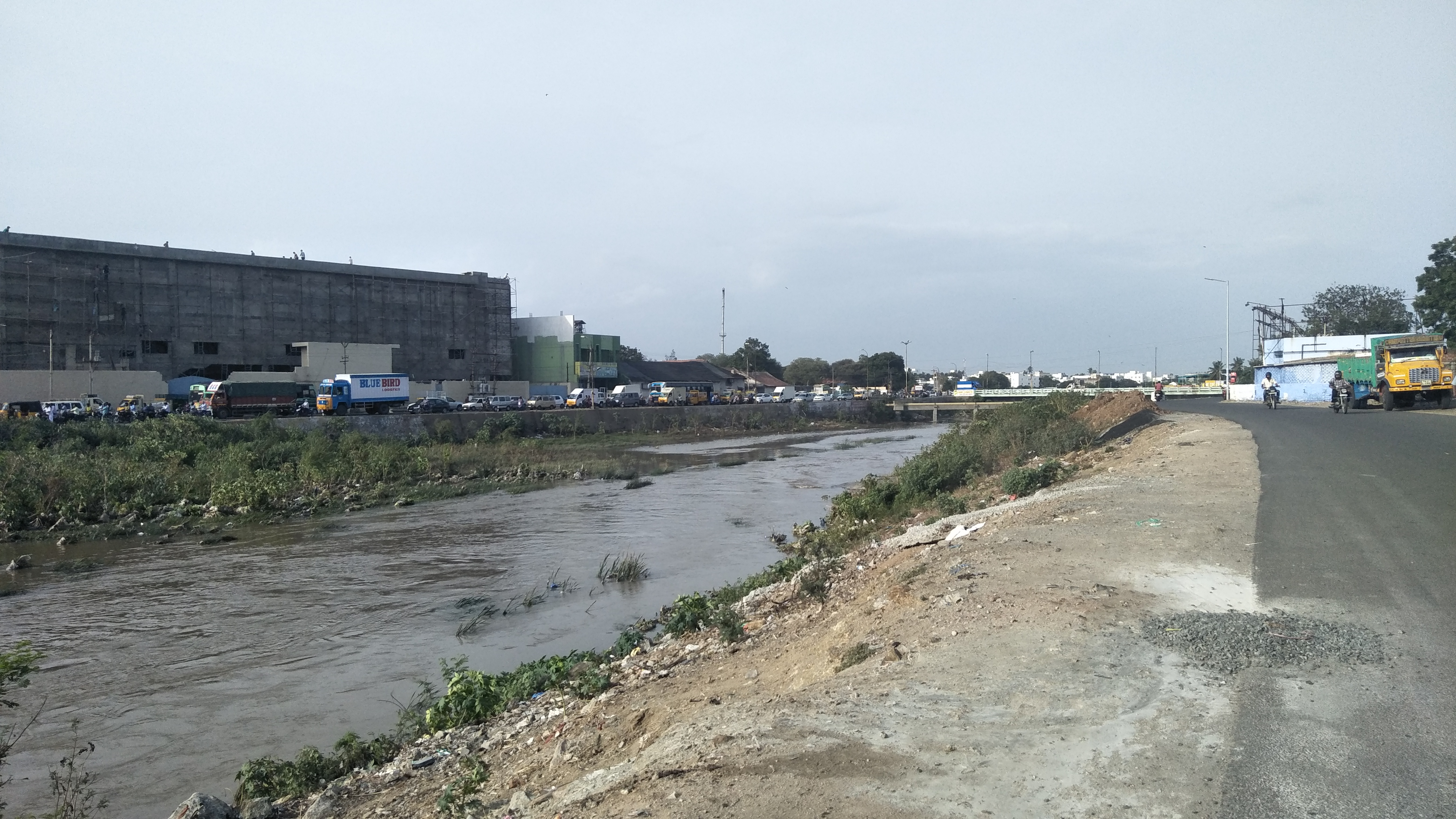 River